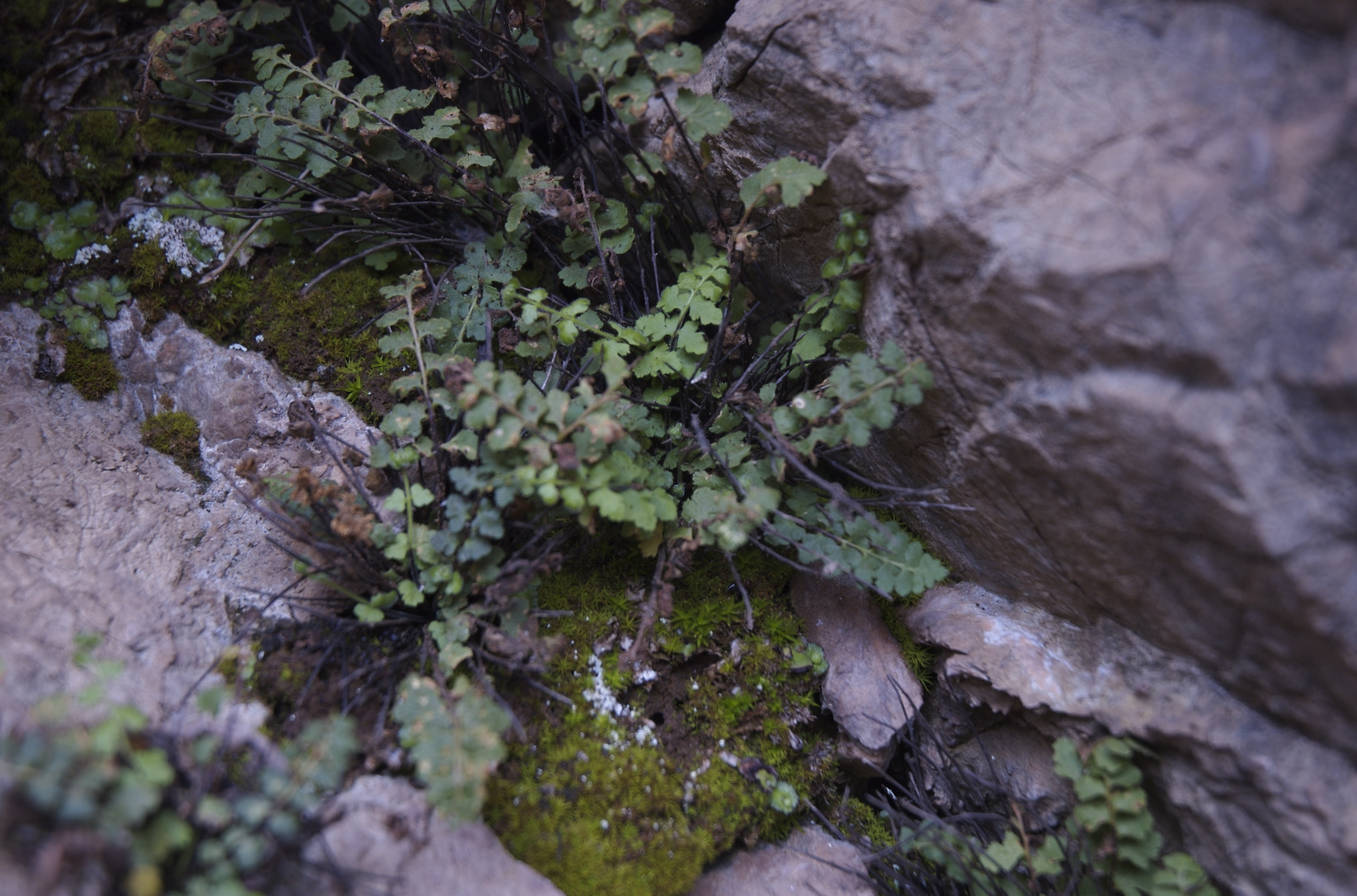 Very poor plant but i think it is trichomanes or not????? Hybrid one?